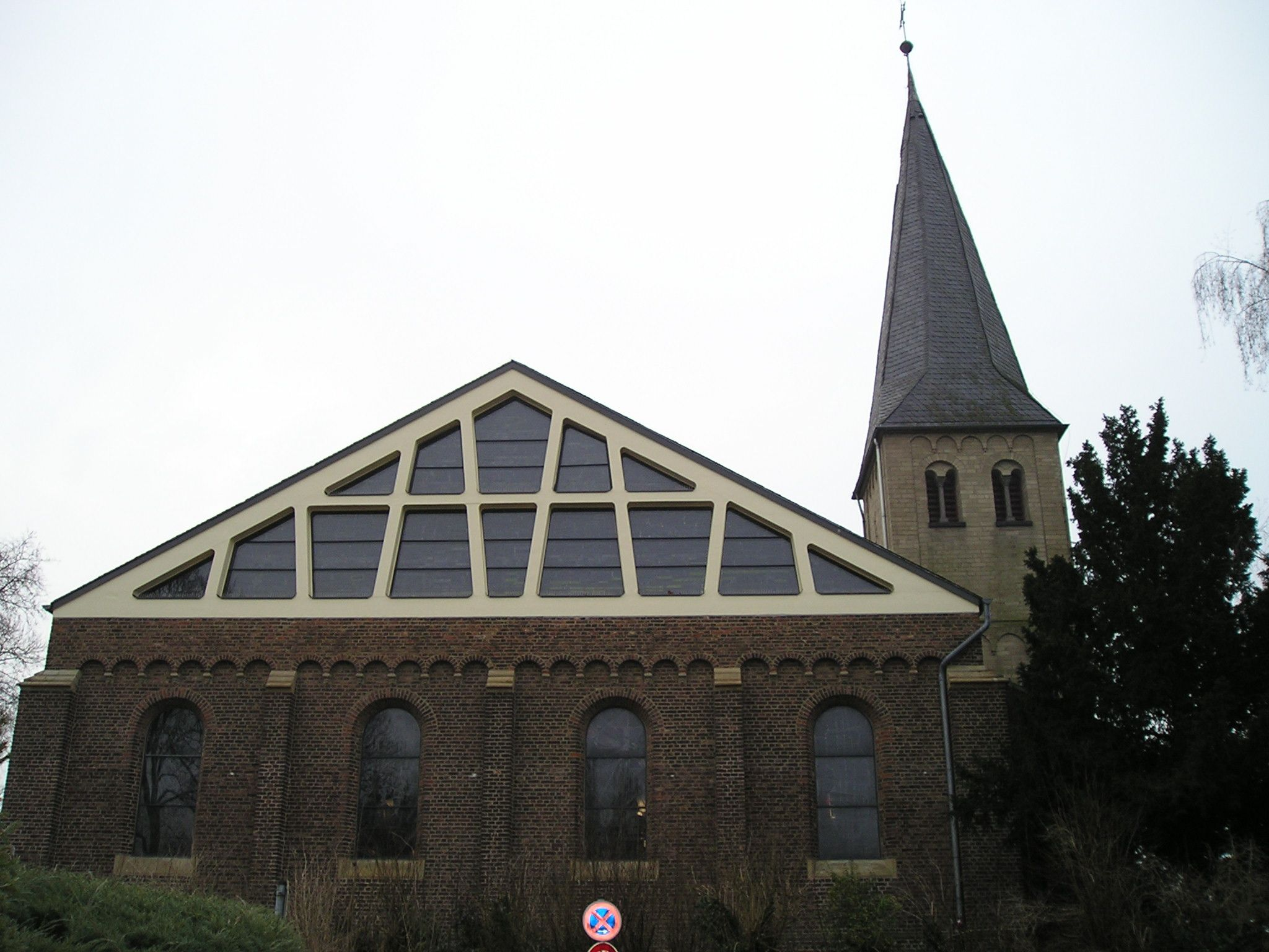 Catholic church St. Dionysius in Baumberg